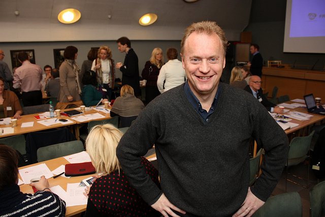 Raymond Johansen